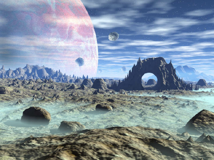 Demonstration of Bryce 3D program. An another website